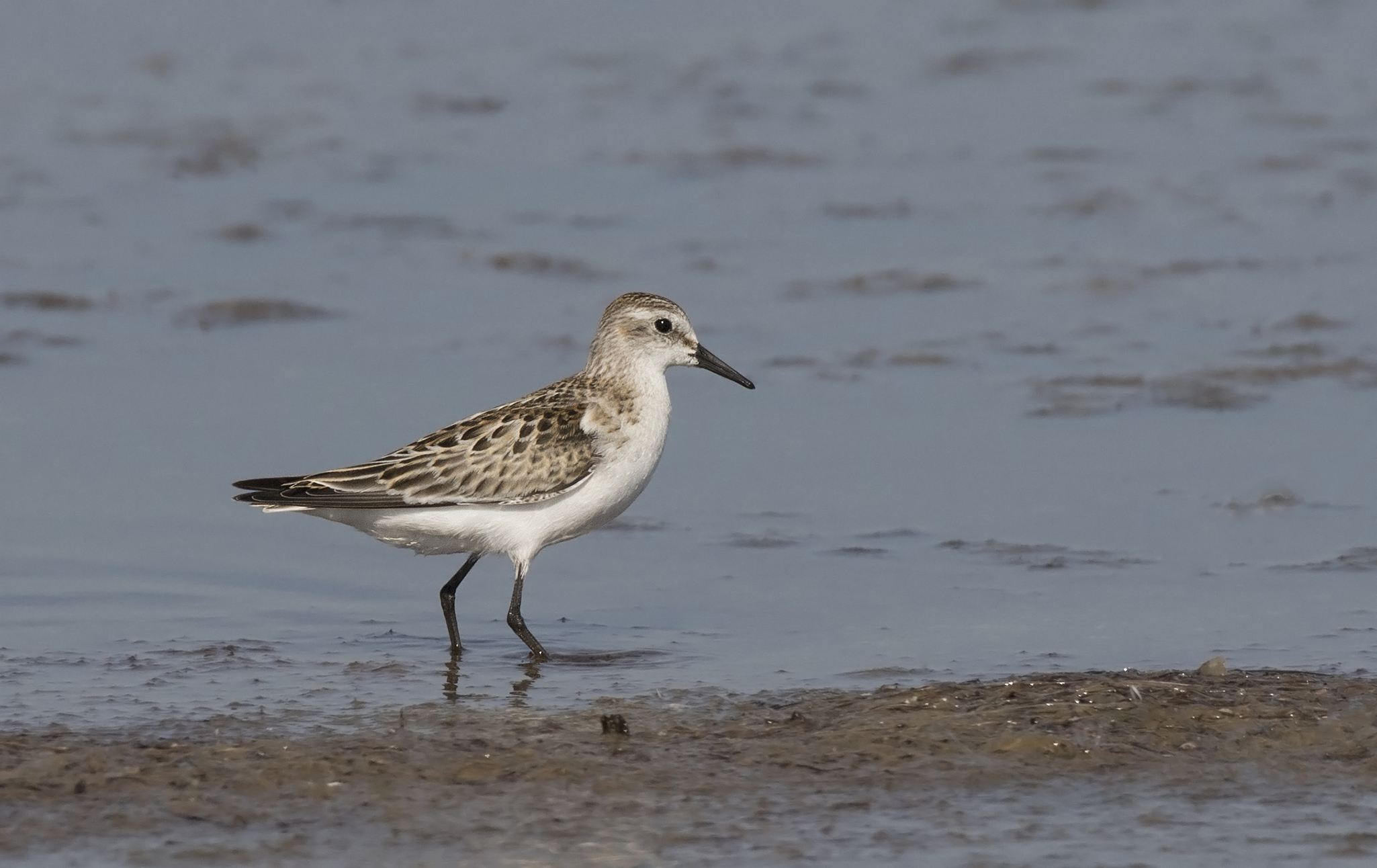 Little stint (Calidris minuta), juvenile assuming the first winter plumage. Lake Tuzla, Karataş - Adana, Turkey.